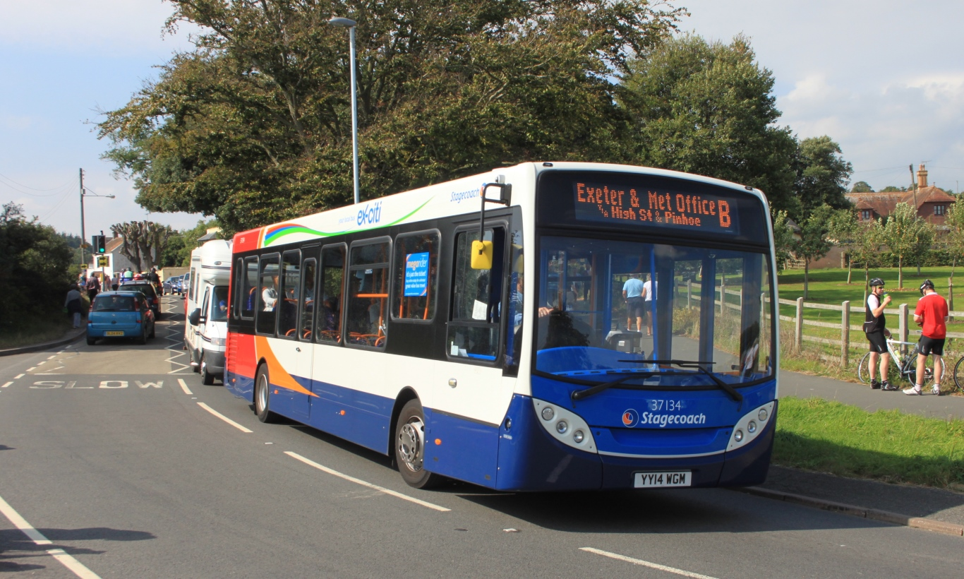 A new Enviro200 operated by Stagecoach South West (fleet number 37134; registration YY14WGM) passes through Cockwood on its way into Exeter.